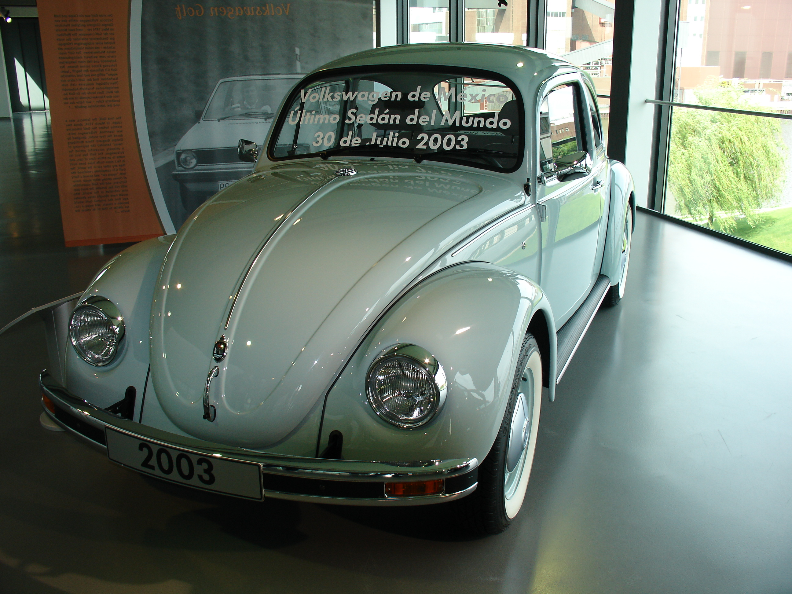 The very last car of the last model of Volkswagen Type 1, "Última edición"